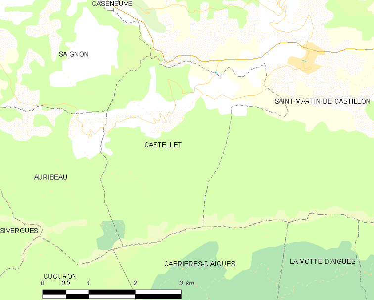 Map of French municipality Castellet-en-Luberon